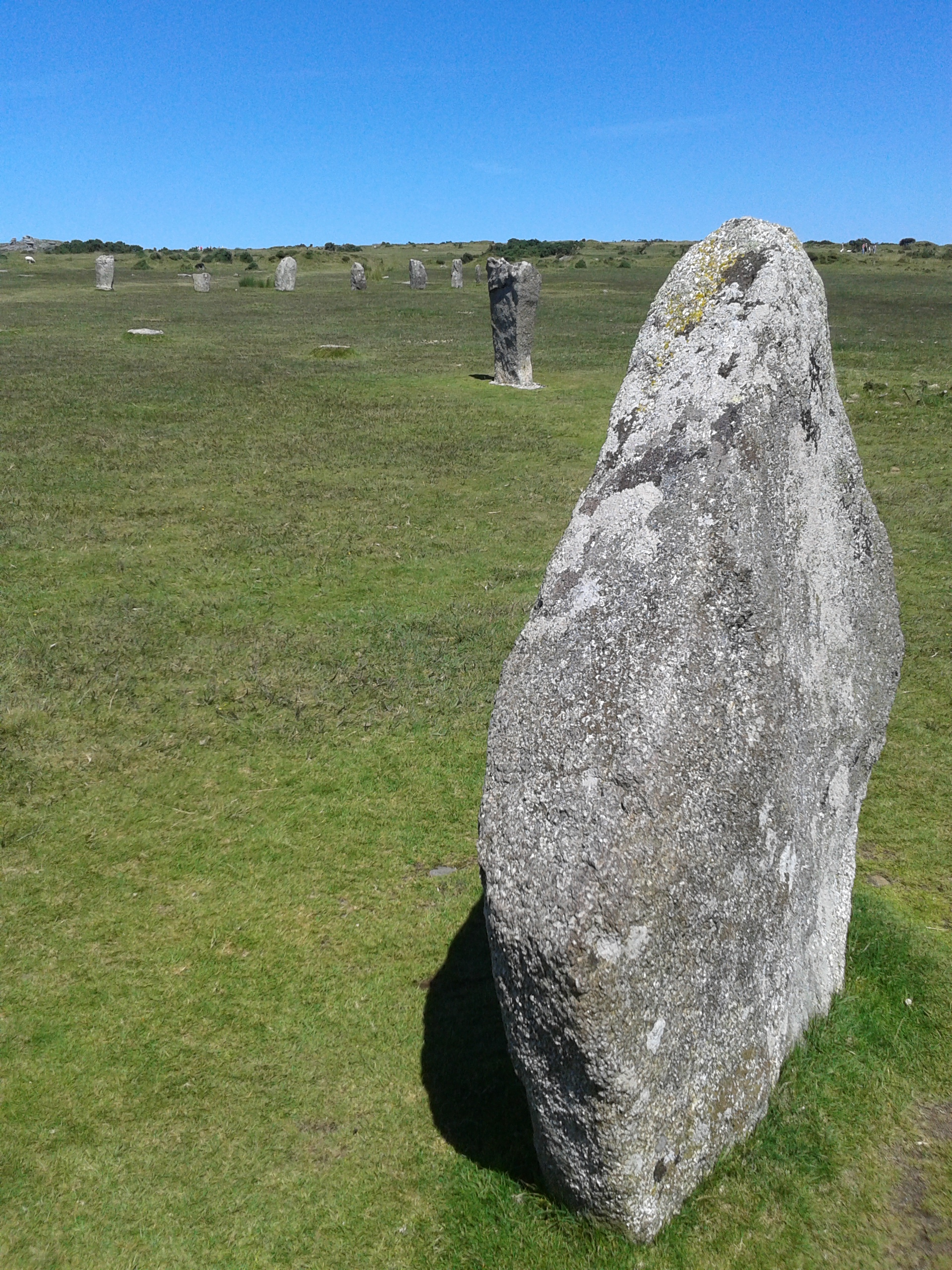 Standing stone of the Hurlers, Minions, Cornwall